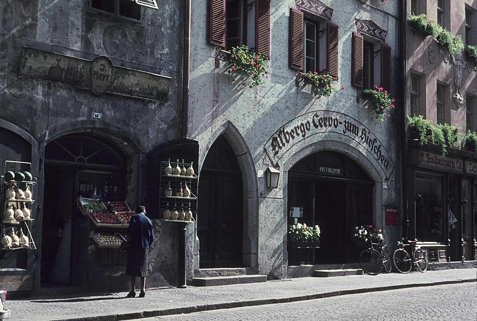 Albergo Cervo - Gasthof zum Hirschen: South Tyrol. Bruneck.